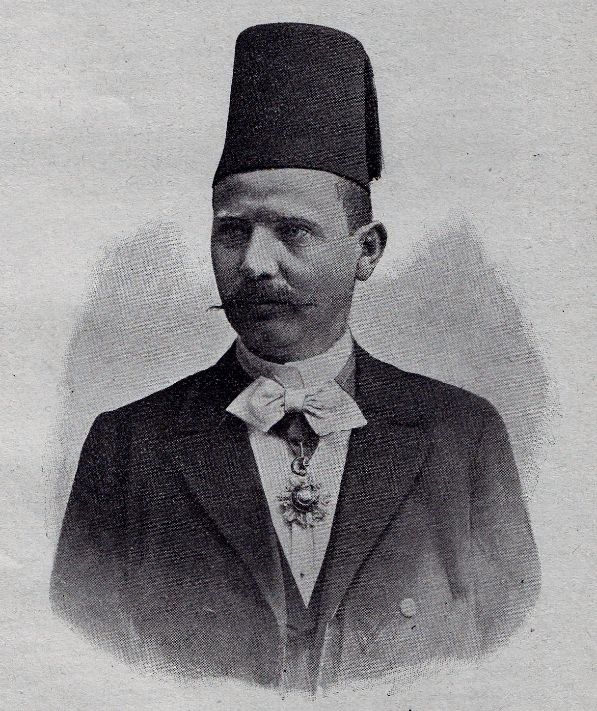 Nikola T. Kašiković (1861-1927), Serbian publicist, editor and owner of the literary newspaper Bosanska vila. Taken from Svetosavski dar srpskoj djeci (early 20th century) by Petar Nikolić. Srpski (latinica): Nikola T. Kašiković (1861-1927), srpski publicista, urednik i vlasnik književnog lista Bosanska vila. Preuzeto iz Svetosavski dar srpskoj djeci (rani 20. vek) Petra Nikolića.